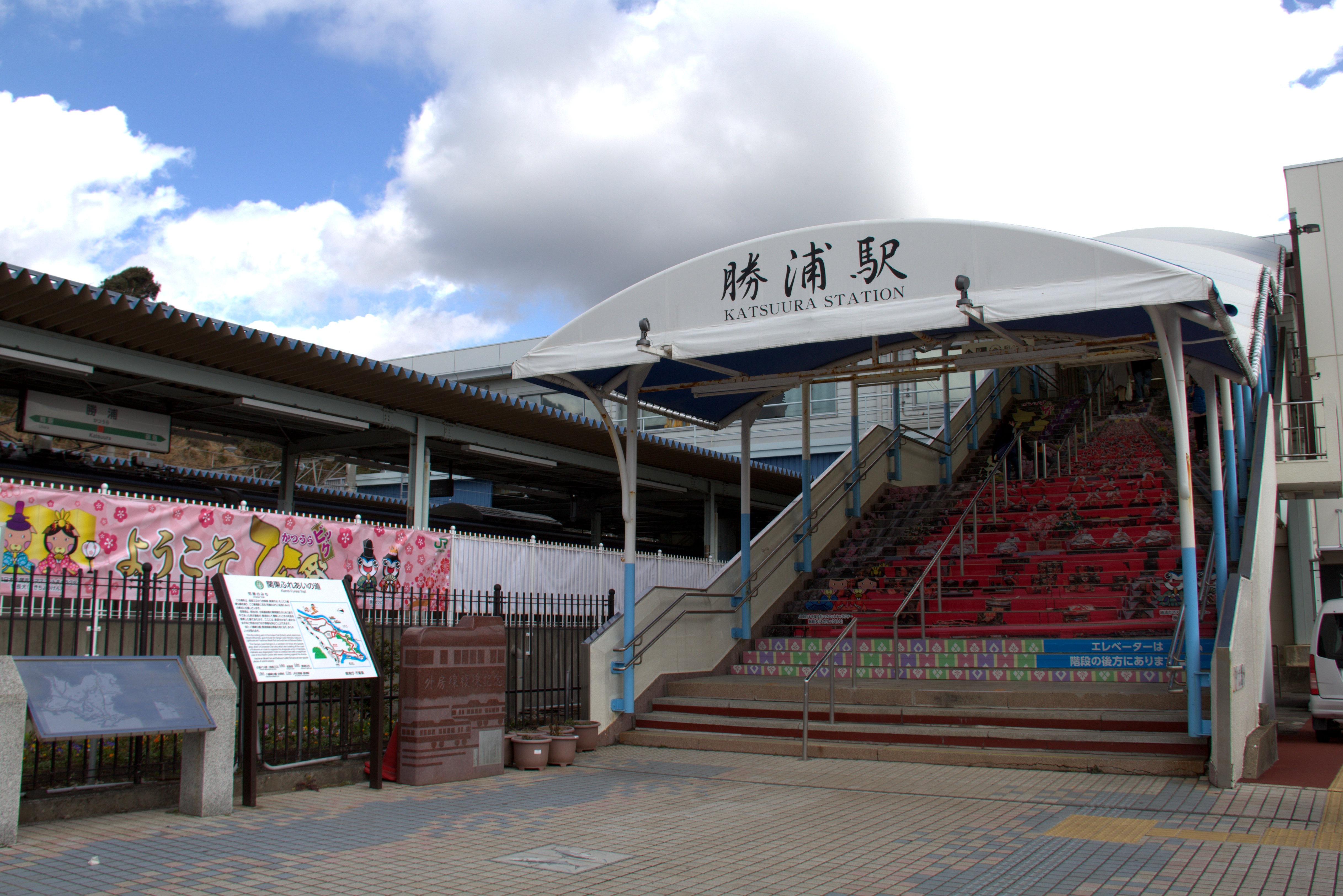 The south entrance to Katsuura Station in Chiba Prefecture, Japan